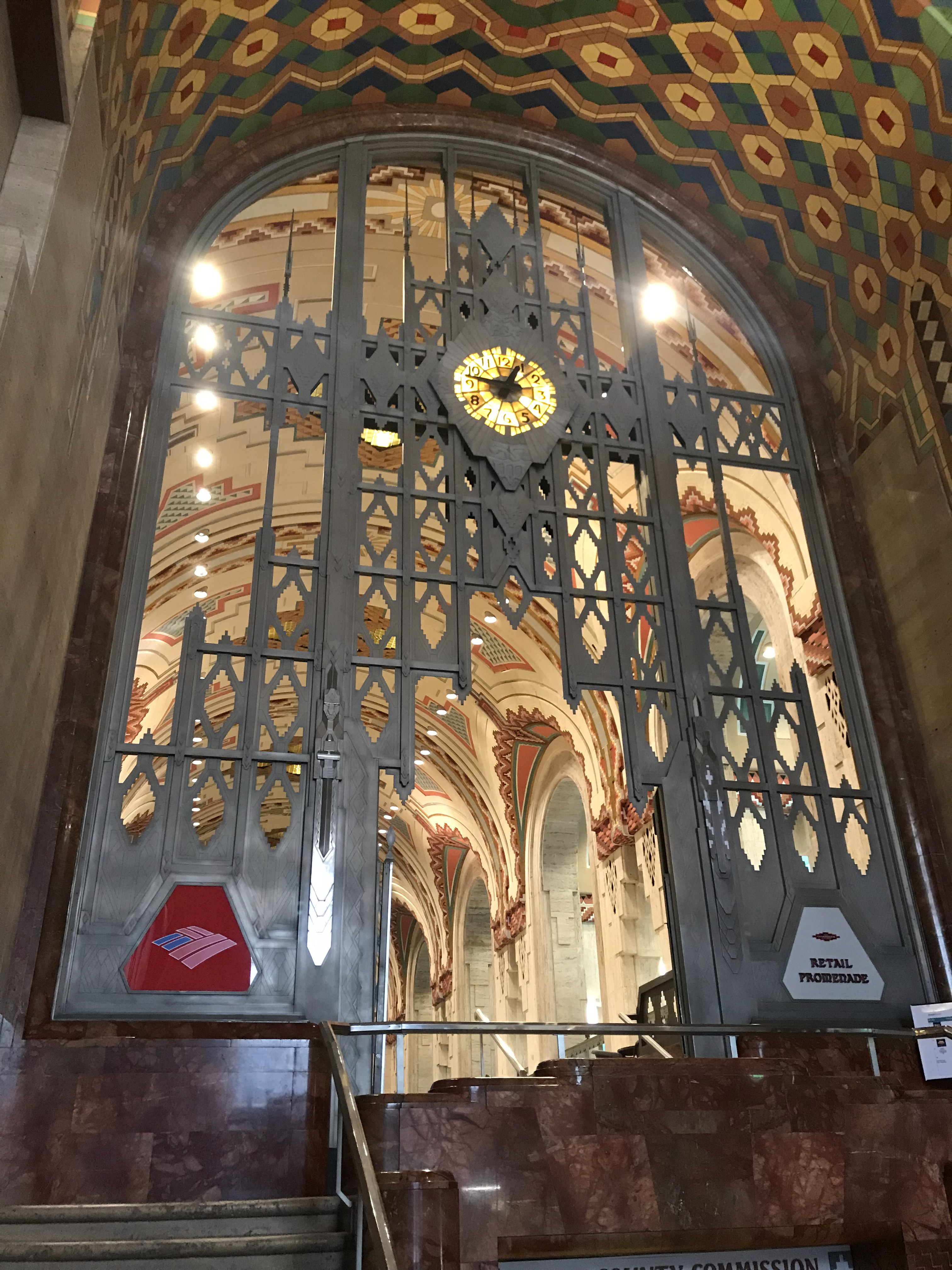 A photograph of the Monel alloy gate and Tiffany clock inside the Guardian Building, Detroit, Michigan.